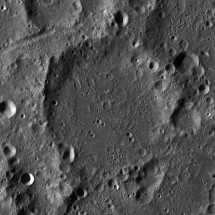 Eötvös crater, on the far side of the moon. LRO Wide Angle Camera mosaic.